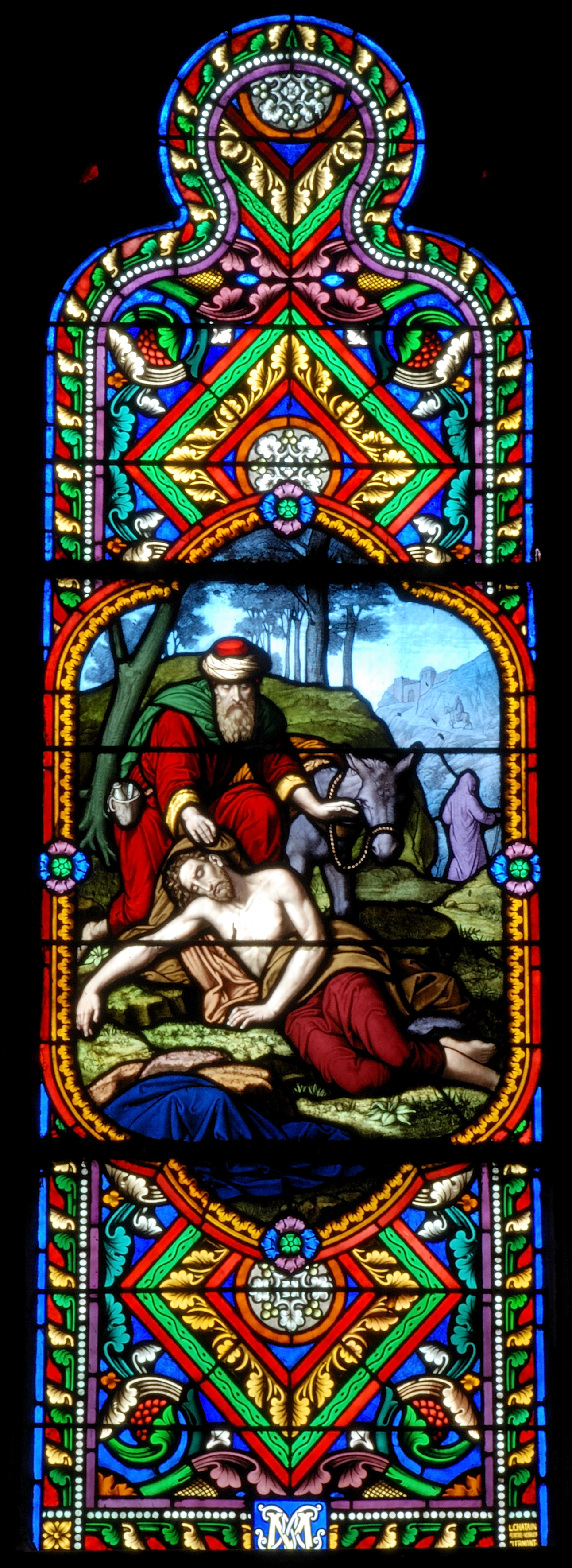 Church of Saint-Eutrope in Clermont-Ferrand, stained glasses (Puy-de-Dôme, France Translations in other languages are welcome.